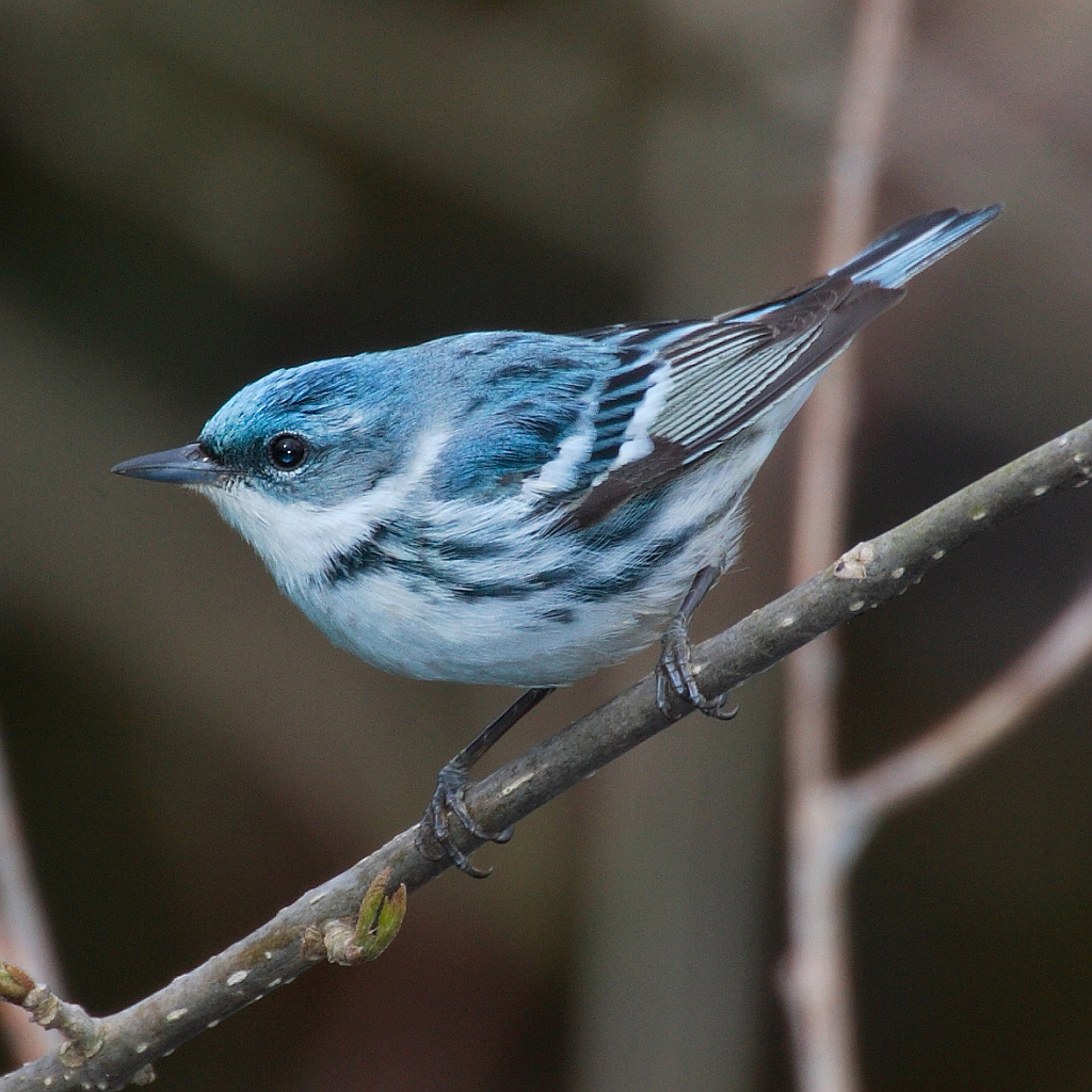 Cerulean Warbler (Dendroica cerulea). Rondeau Provincial Park, Ontario, Canada.